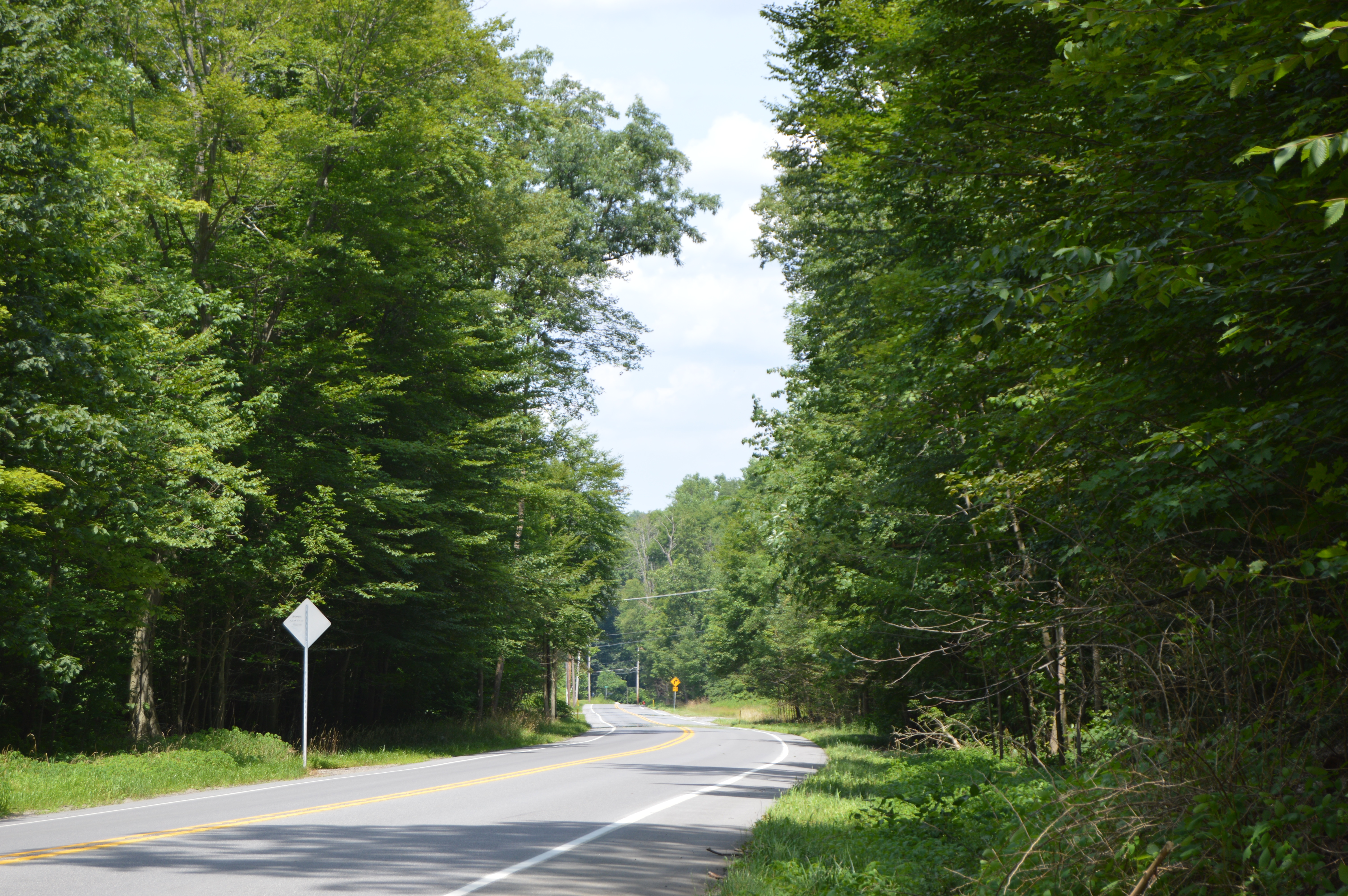 Looking downhill (southeast) along St. Clair Road in hilly southern Lower Yoder Township, Cambria County, Pennsylvania, United States.